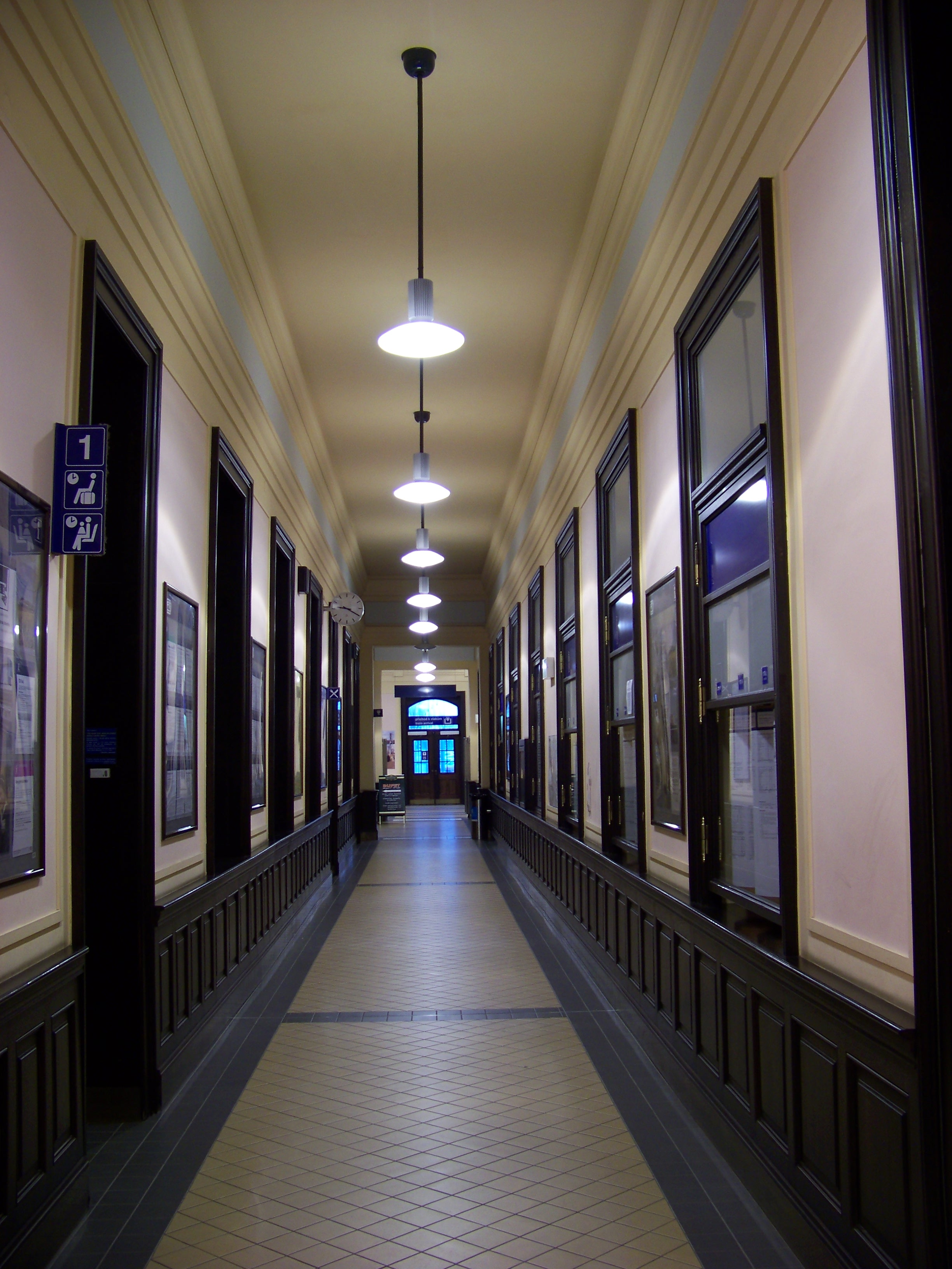 Ostrava-Svinov, Moravian-Silesian Region, the Czech Republic. Train station Ostrava-Svinov. A corridor in the old building.